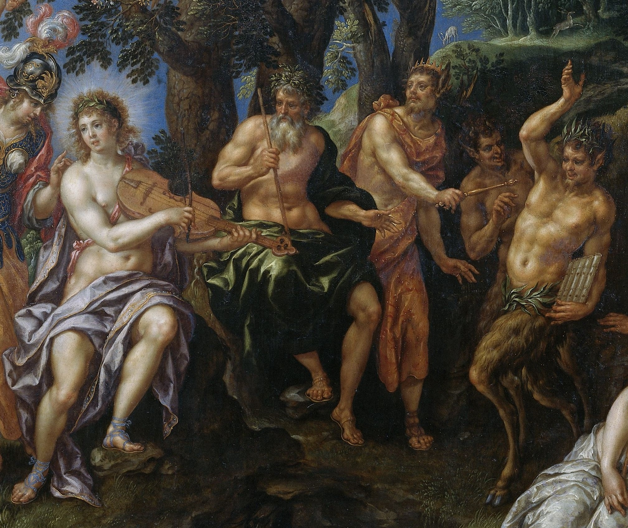 Kontes Apollo vs Pan